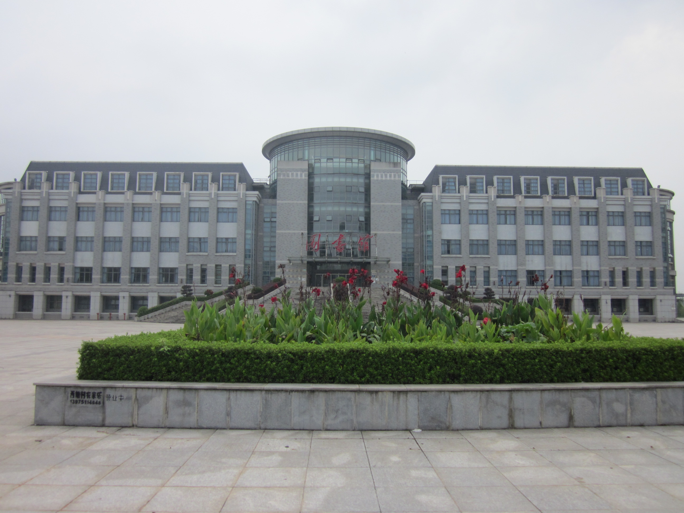 Hunan First Normal University (simplified